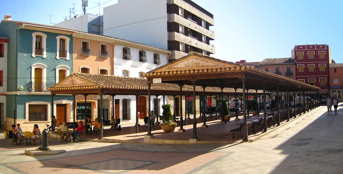 Els Porxens, symbolic covered market place in Pedreguer, county Marina Alta, Region of Valencia, Spain